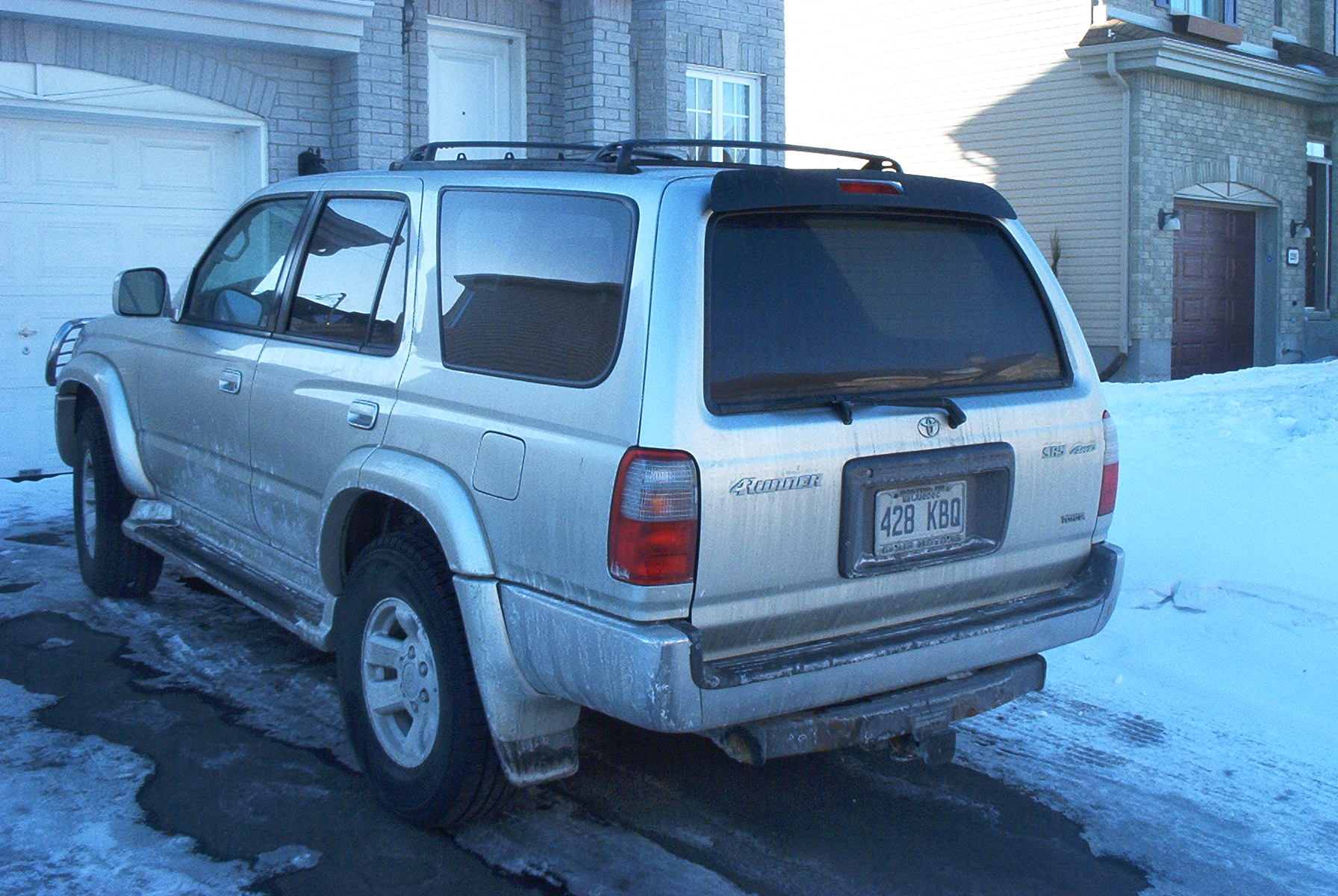 Take Me Higher 22:28, 6 March 2006 (UTC)